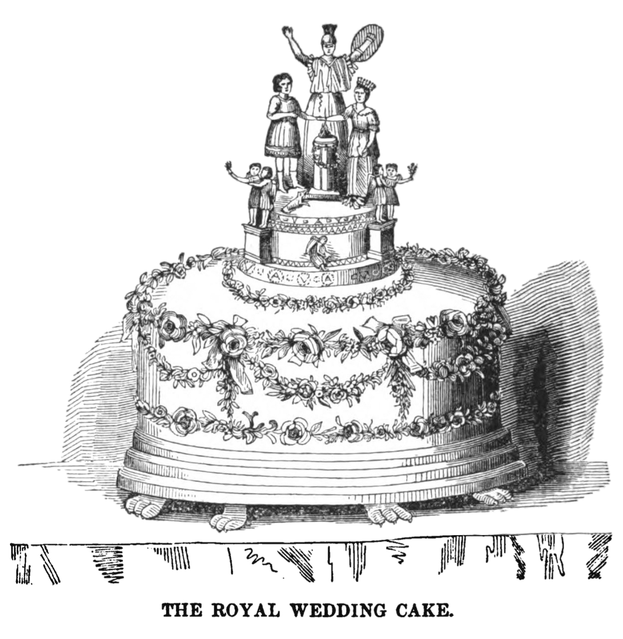 the Royal Wedding Cake of Queen Victoria